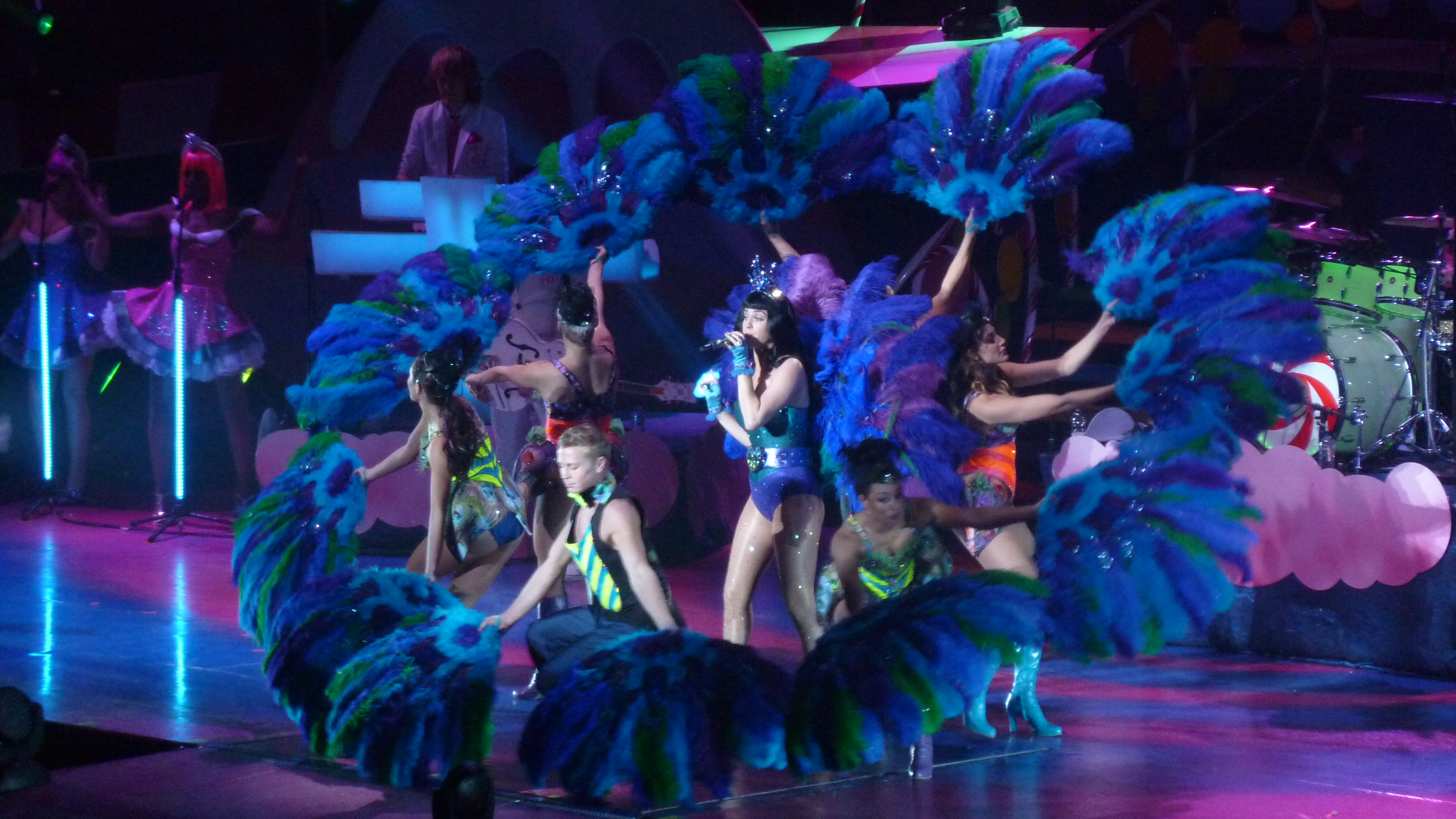 Katy Perry Live at the O2, Dublin on 7/11/11